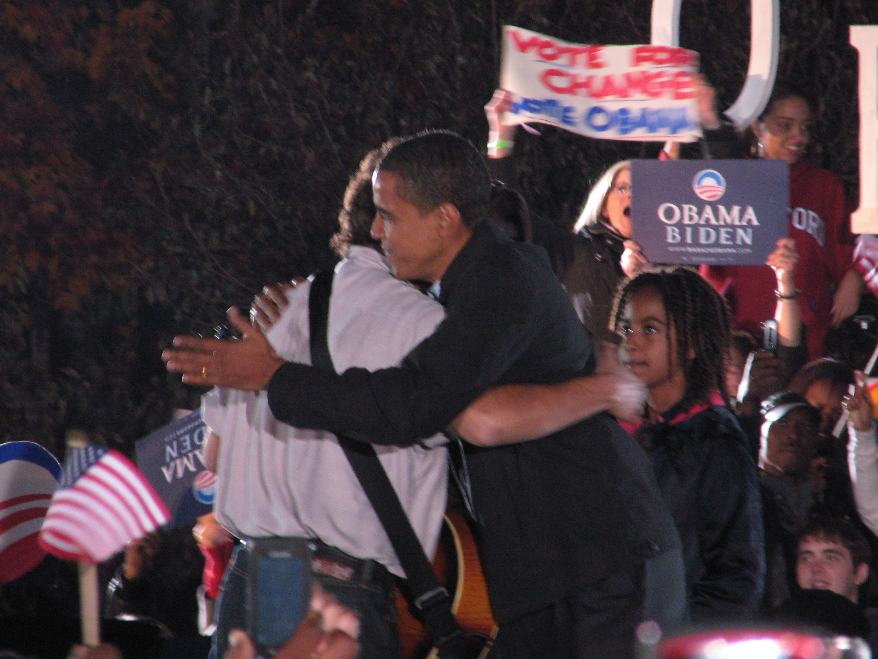 Bruce Springsteen and Barack Obama hug at rally in Cleveland, Ohio.